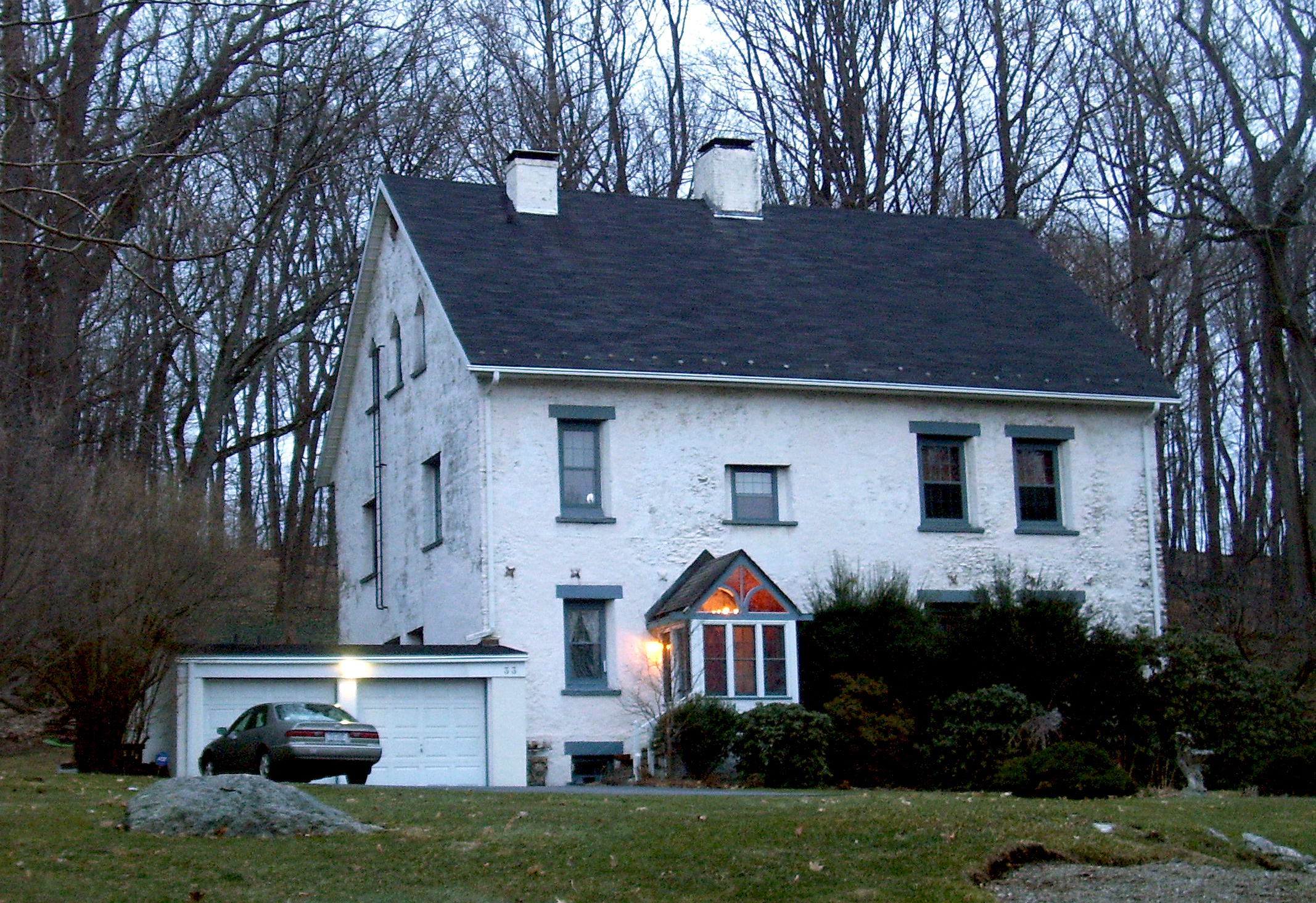 Rehoboth, Chappaqua, NY, USA. One of the earliest concrete buildings ever in the U.S., built by Horace Greeley as an experiment. Later converted into a house by Ralph Adams Cram and named Rehoboth.